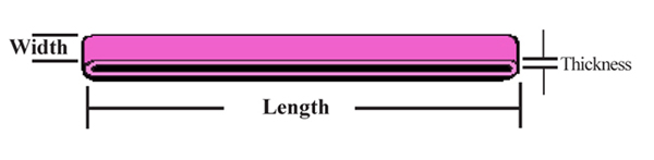 Measuring a rubber band / rubber band specifications.